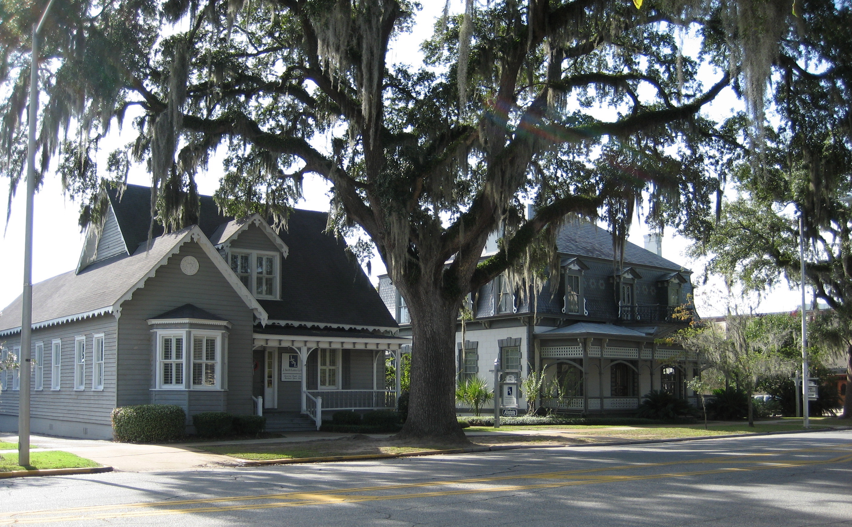 Thomasville, Georgia, USA: 19th century houses, tree with Spanish moss